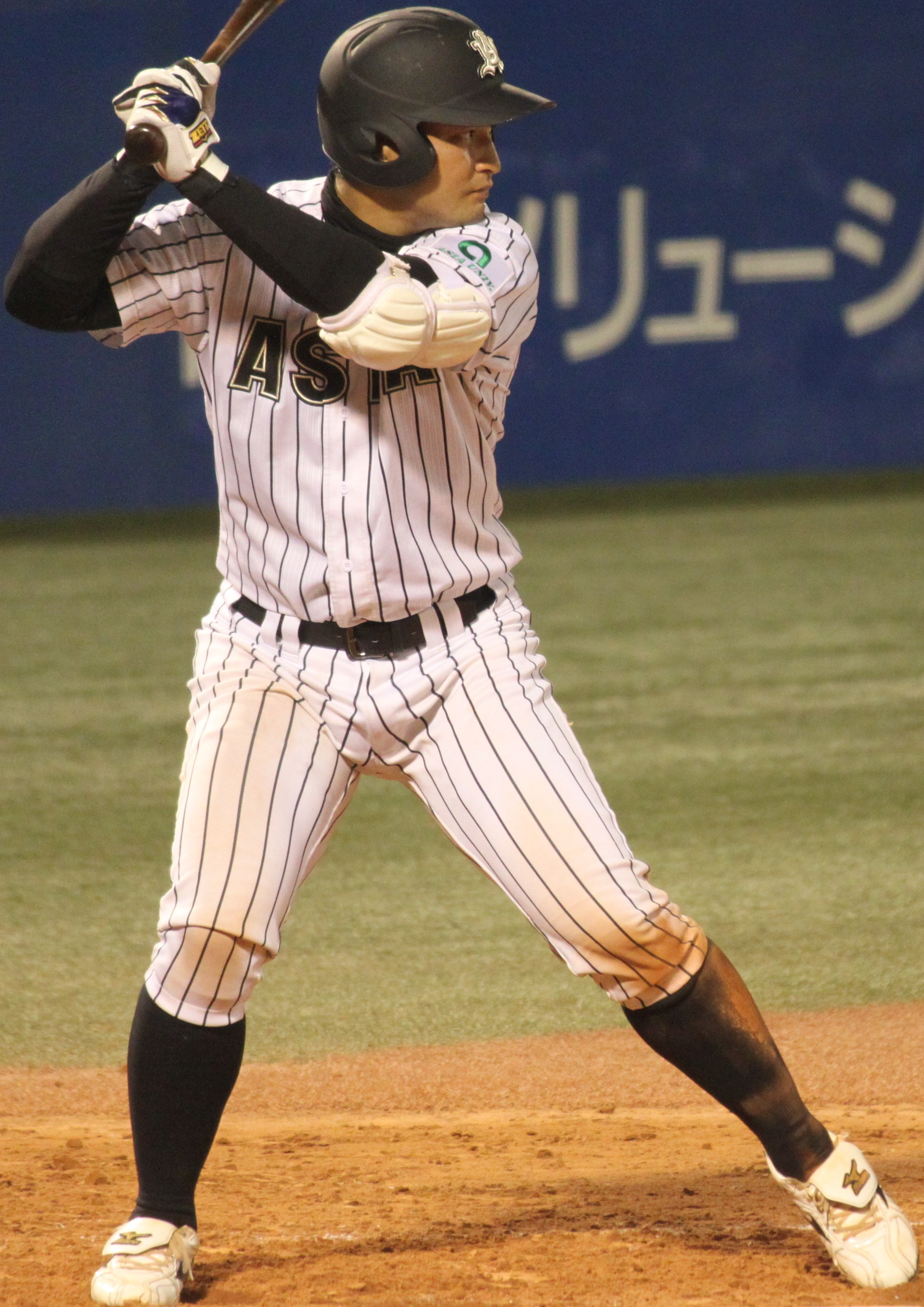 Hiroki Minei, a catcher of the Asia University Baseball Club, at Meiji Jingu Stadium